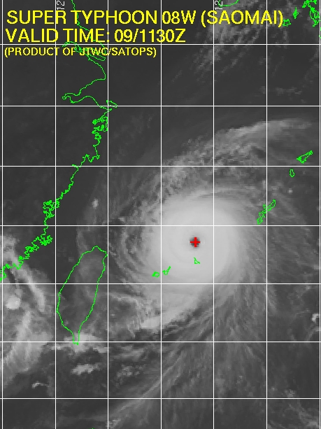 From the JTWC. Cropped image to only show STY08W. This satellite image provided by the Joint Typhoon Warning Center shows Typhoon Saomai.